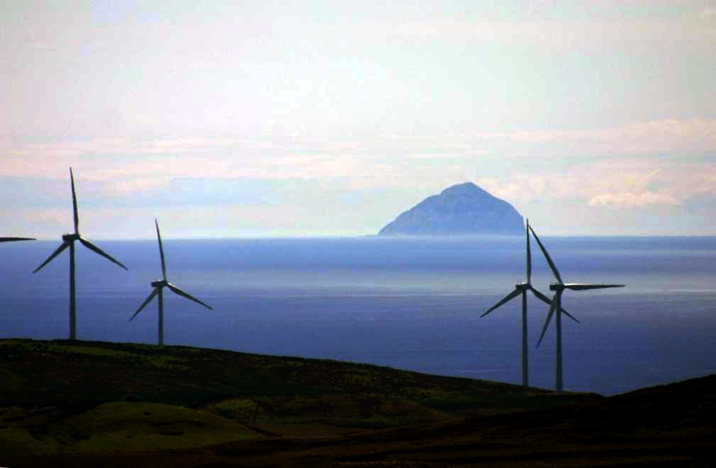 View from windfarm towards Clyde's best known landmark, Ailsa Craig, rotated -1.2 degrees and cropped slightly by uploader